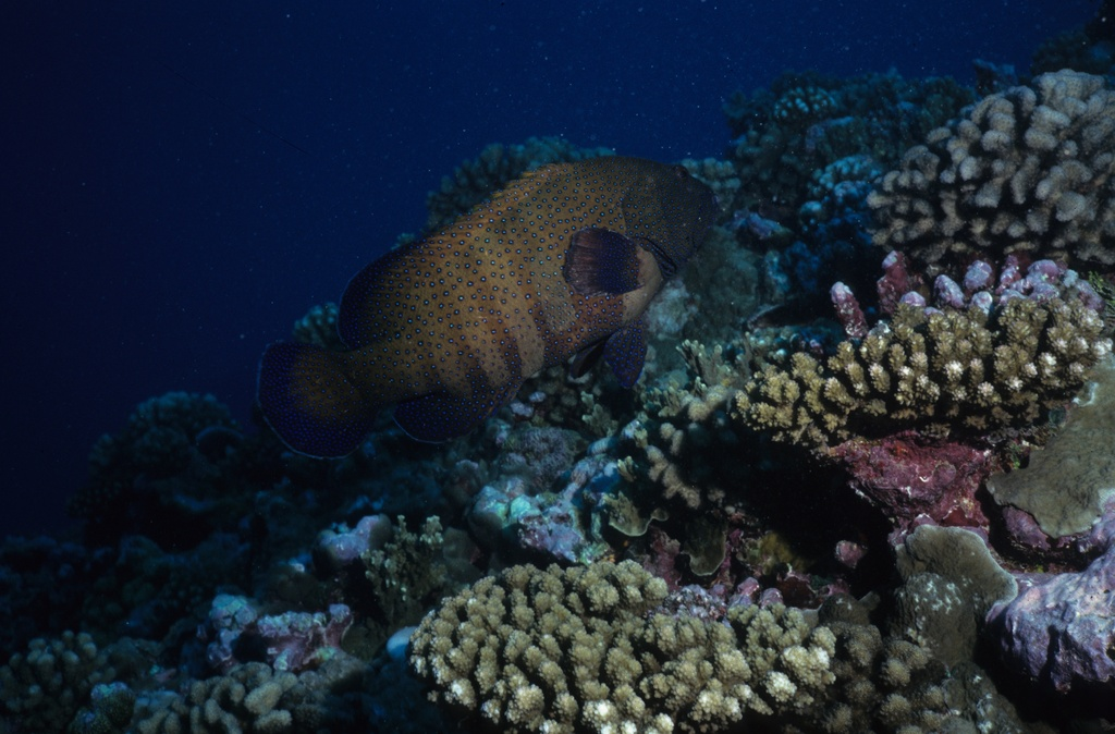 Peacock rockcod photographed in the Comoros